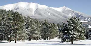 Arizona Snowbowl, an alpine ski resort located on the San Francisco Peaks